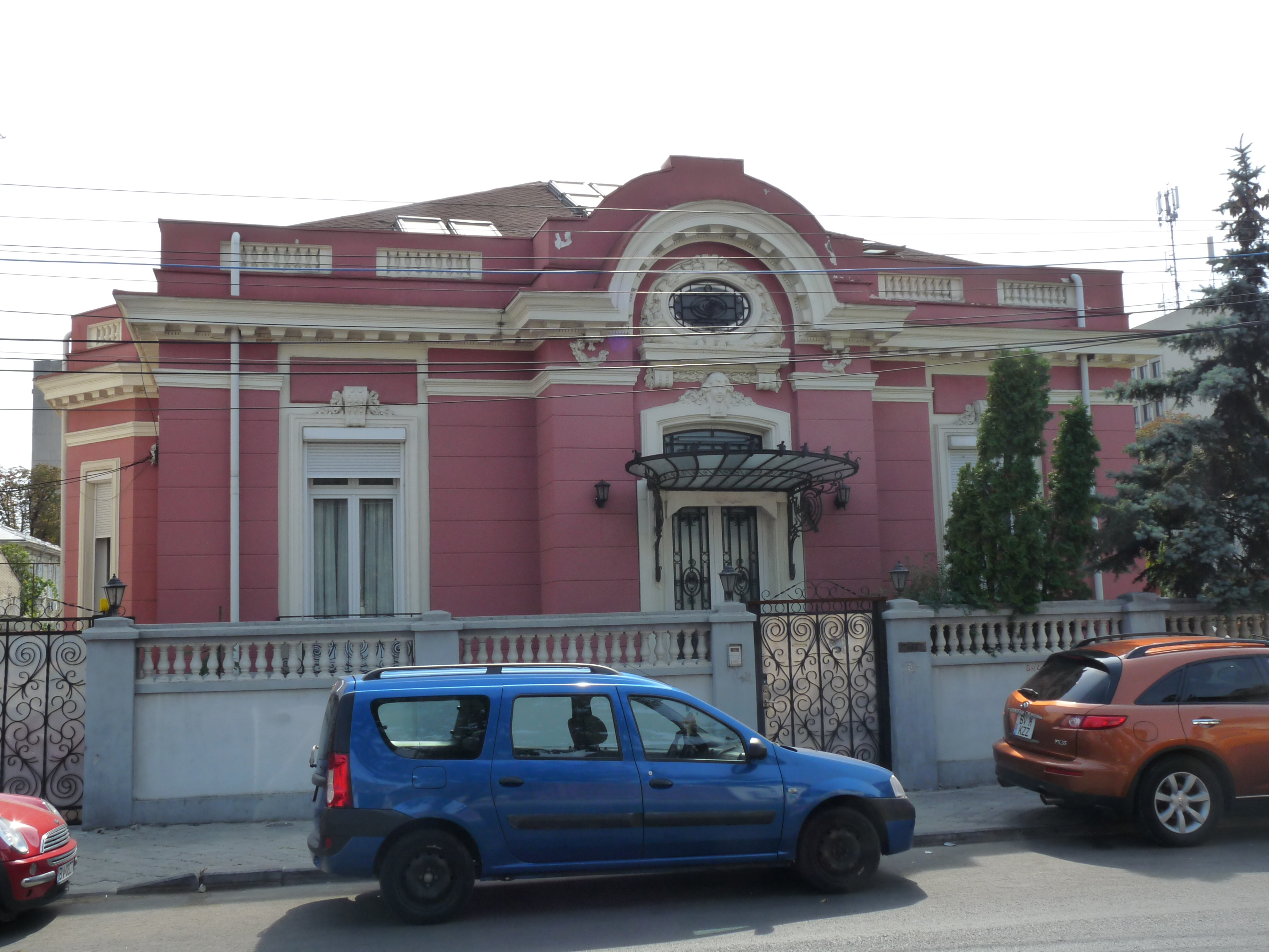 Historic building in Bucharest, Romania, at Eminescu street 138Română: Clădire istorică din București, România, în strada Mihai Eminescu, nr. 138